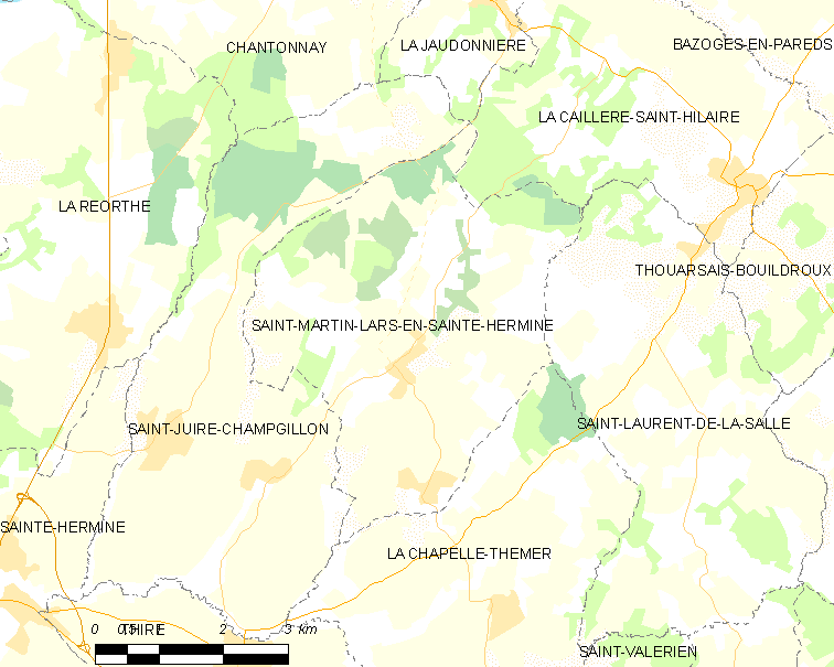 Map of French municipality Saint-Martin-Lars-en-Sainte-Hermine